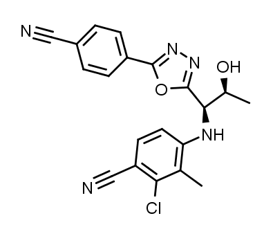 Structure of RAD140.